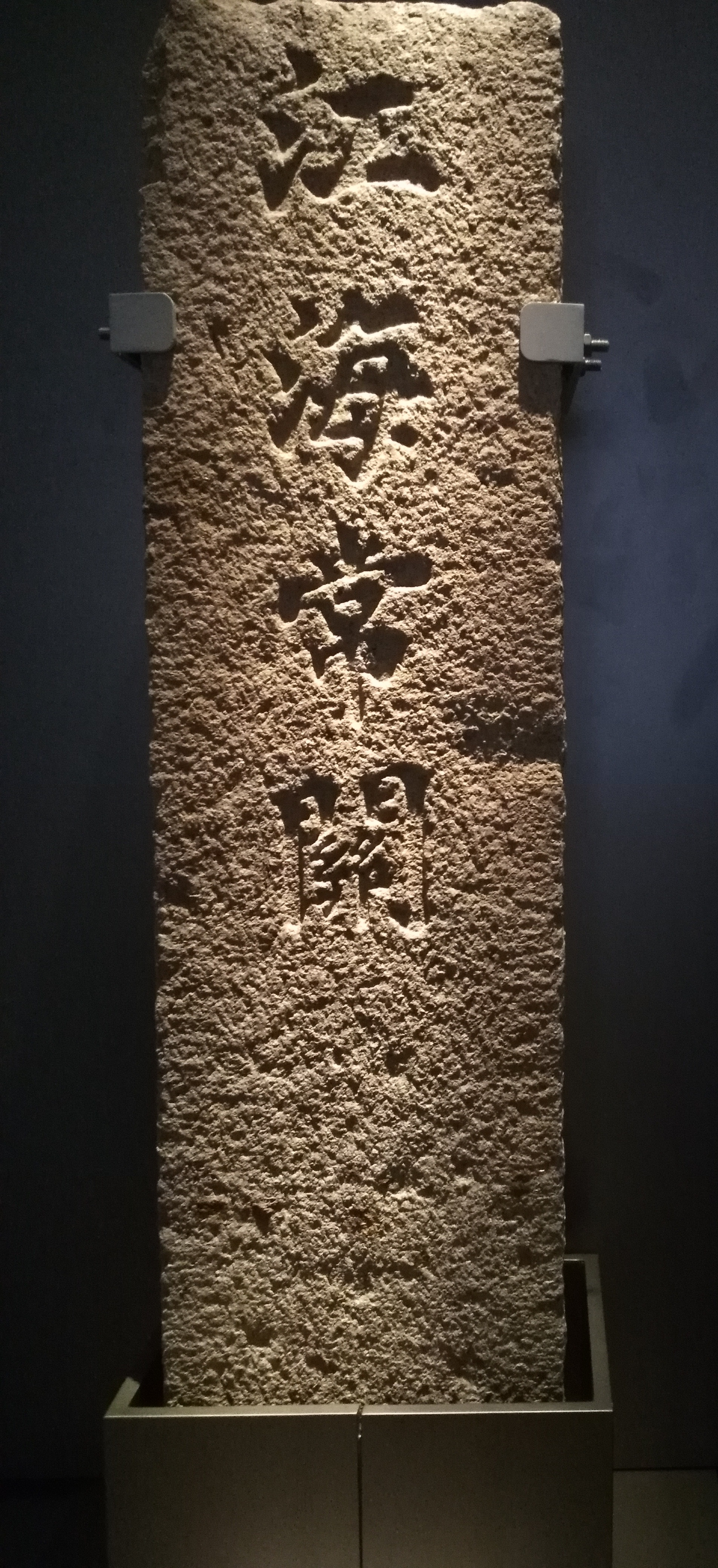 The Stele of South Shanghai Custom House (Jianghai Changguan). In 1686, the Qing Dynasty lifted the sea ban and set up Shanghai Custom House (Jianghaiguan) This is the boundary stone of (South) Shanghai Custom House (Jianghai Changguan).